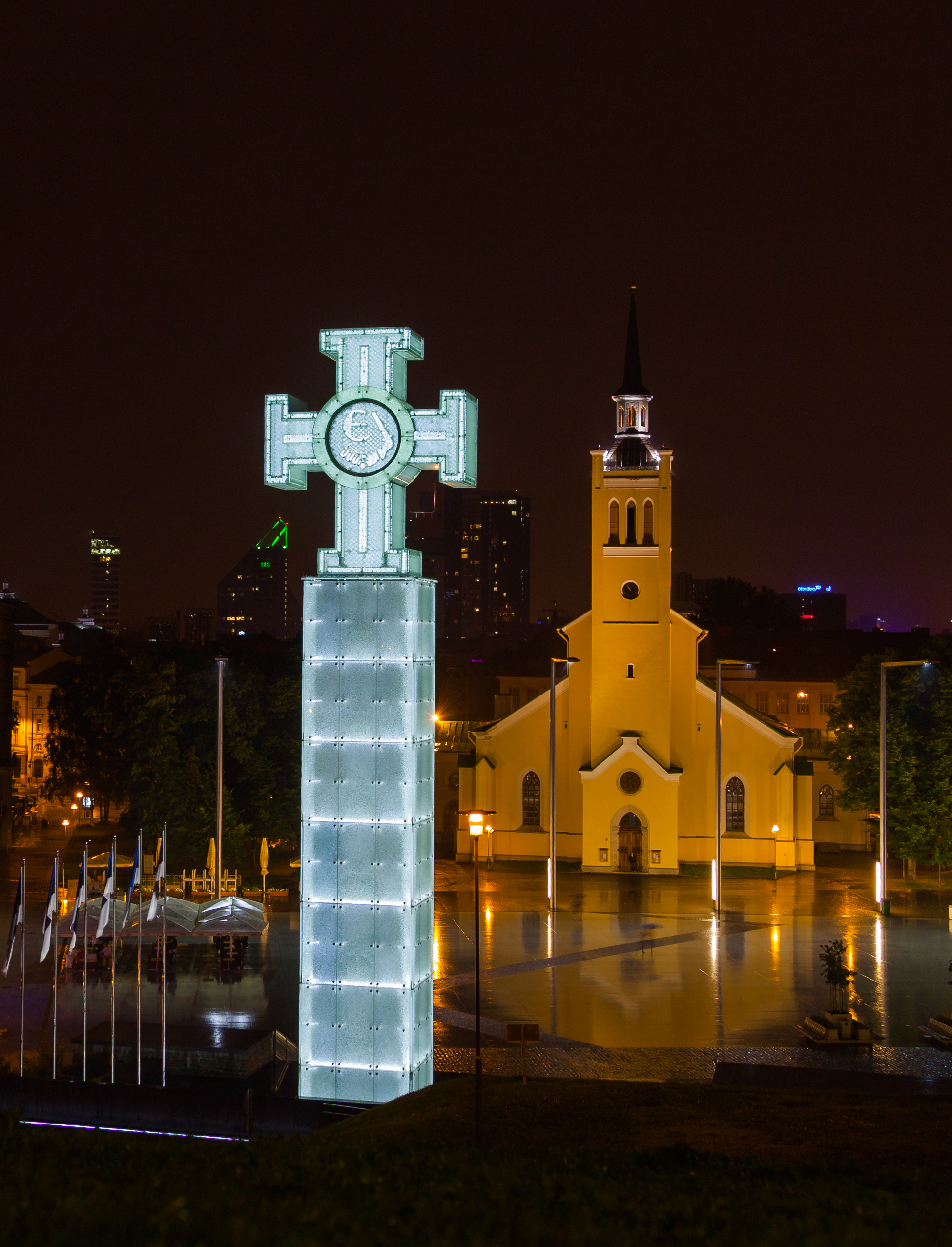 Independence War Victory Column and St. John's church, Tallinn, Estonia